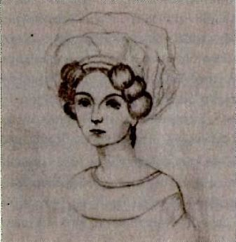 Kabardian (Circassian) Servetseza Başkadınefendi, first wife of Sultan Abdülmecid I.